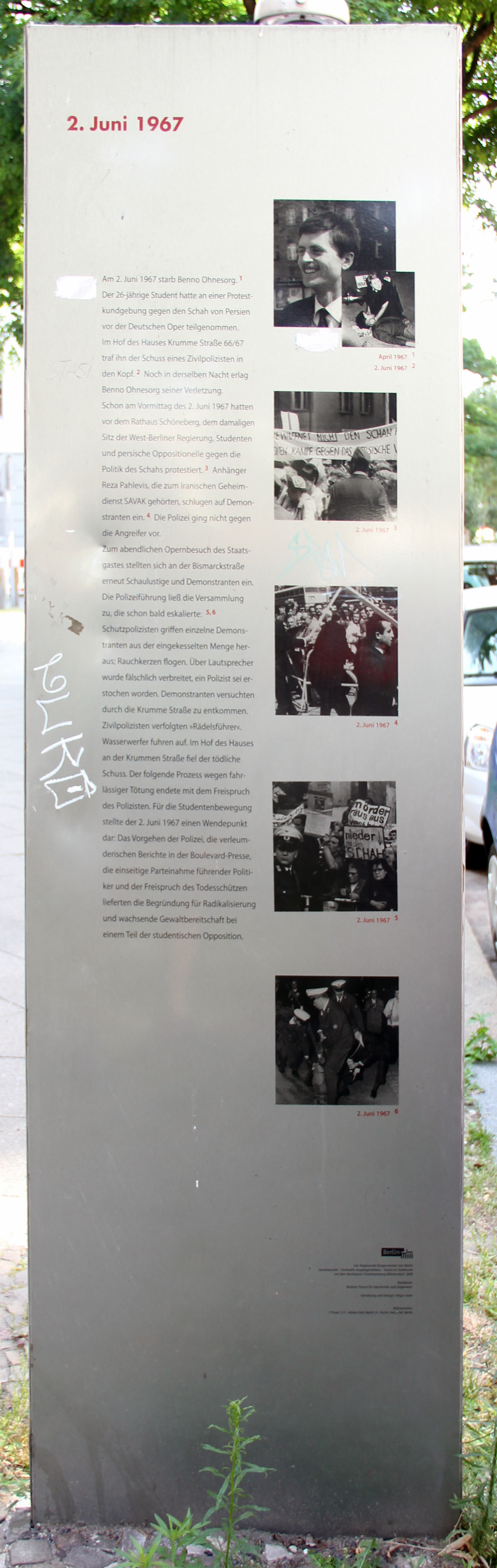 Memorial plaque, 2. Juni 1967, Krumme Straße 65, Berlin-Charlottenburg, Germany